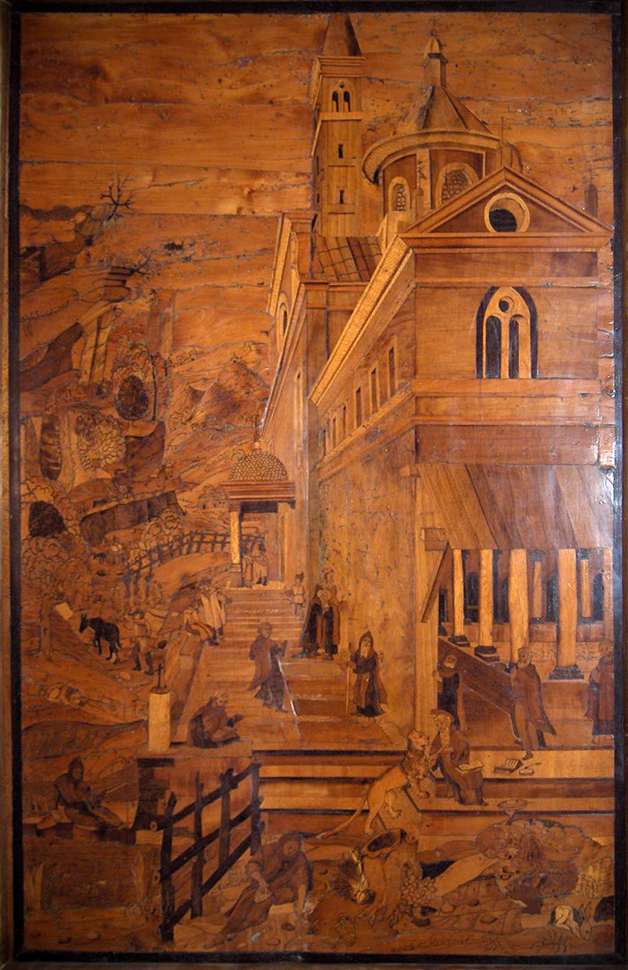 Story of San Girolamo, intarsia by Damiano da Bergamo (1530-1535); Museum of the Basilica of Saint Dominic, Bologna, Italy